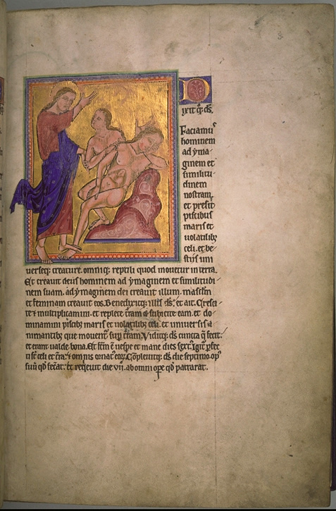 Folio 3 recto from the Aberdeen Bestiary.